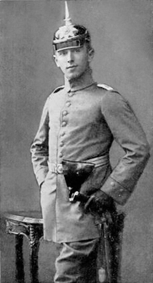 Flight Lieutenant Max Immelmann before 1915.